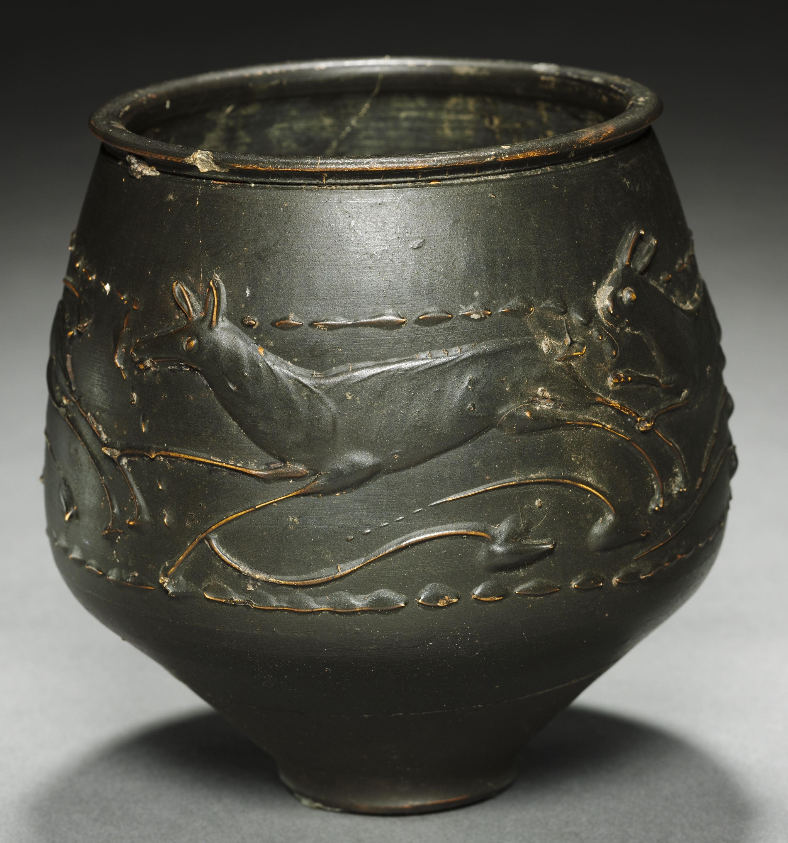 The work of Roman potters is very different from that of their Greek predecessors. Greek clay had allowed potters to throw thin-walled ceramics. Slips (paint) made from this clay had permitted painters to draw complicated scenes and figures with infinite care. As the Roman empire grew to include Germany and Britain, local clays found there were better for producing heavier pottery with three-dimensional decoration like the vases shown here. These jars--decorated with a human face (1992.125), animals (1992.126), a feather pattern (1992.183), a wheat pattern (1992.124), and vertical ribs (1992.127,a) were probably filled with foods or liquids and given either as gifts to an elaborate burial or as offerings to a god's shrine.